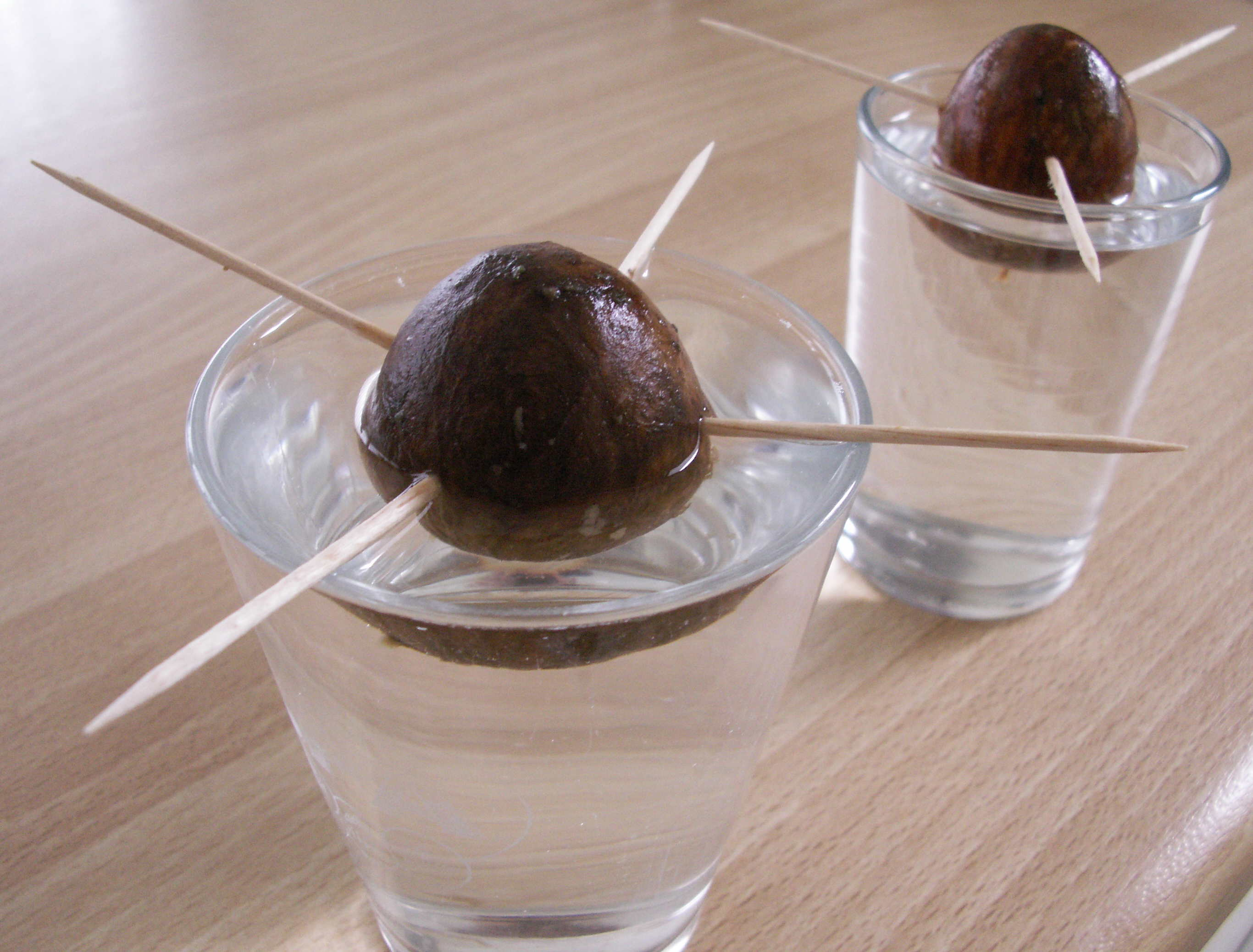 A picture of a avocado seed, punctured with 4 toothpicks and hung halfway inside a glass with water, so that germination would start. This technique is a key example of a fruit that benefits highly with certain specialized seed treatments. For other tropical fruit, certain (other) odd techniques have also been invented to allow easier seed starting and/or with a lower percentage of lost seeds (by not starting at all or by dying because of infection/disease). See this page and this page for extra info on the technique (you may eg add some charcoal in the water). Don't forget to transplant after 2-6 weeks !